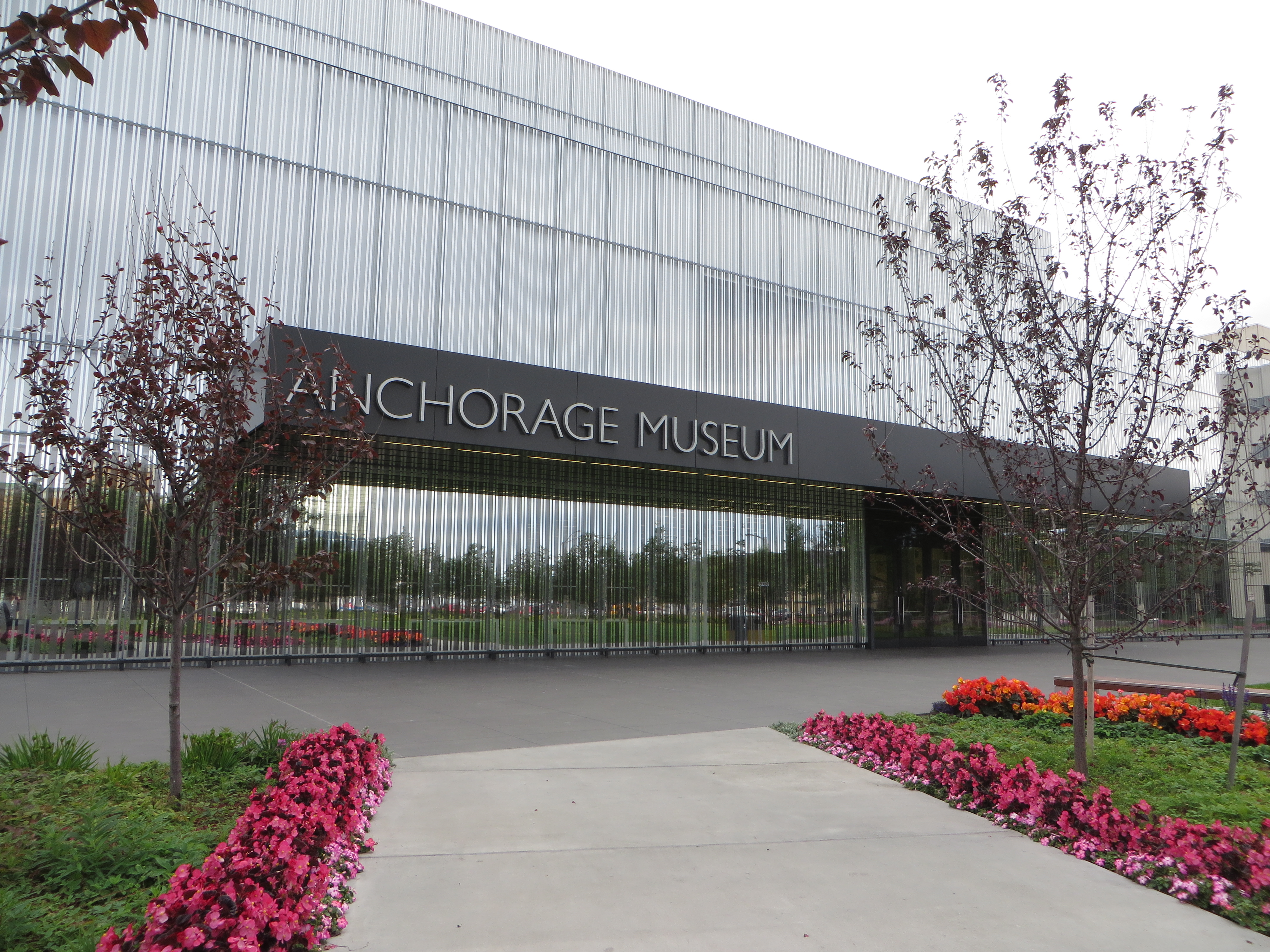 The front entrance of the Anchorage Museum at Rasmuson Center in downtown Anchorage, Alaska.